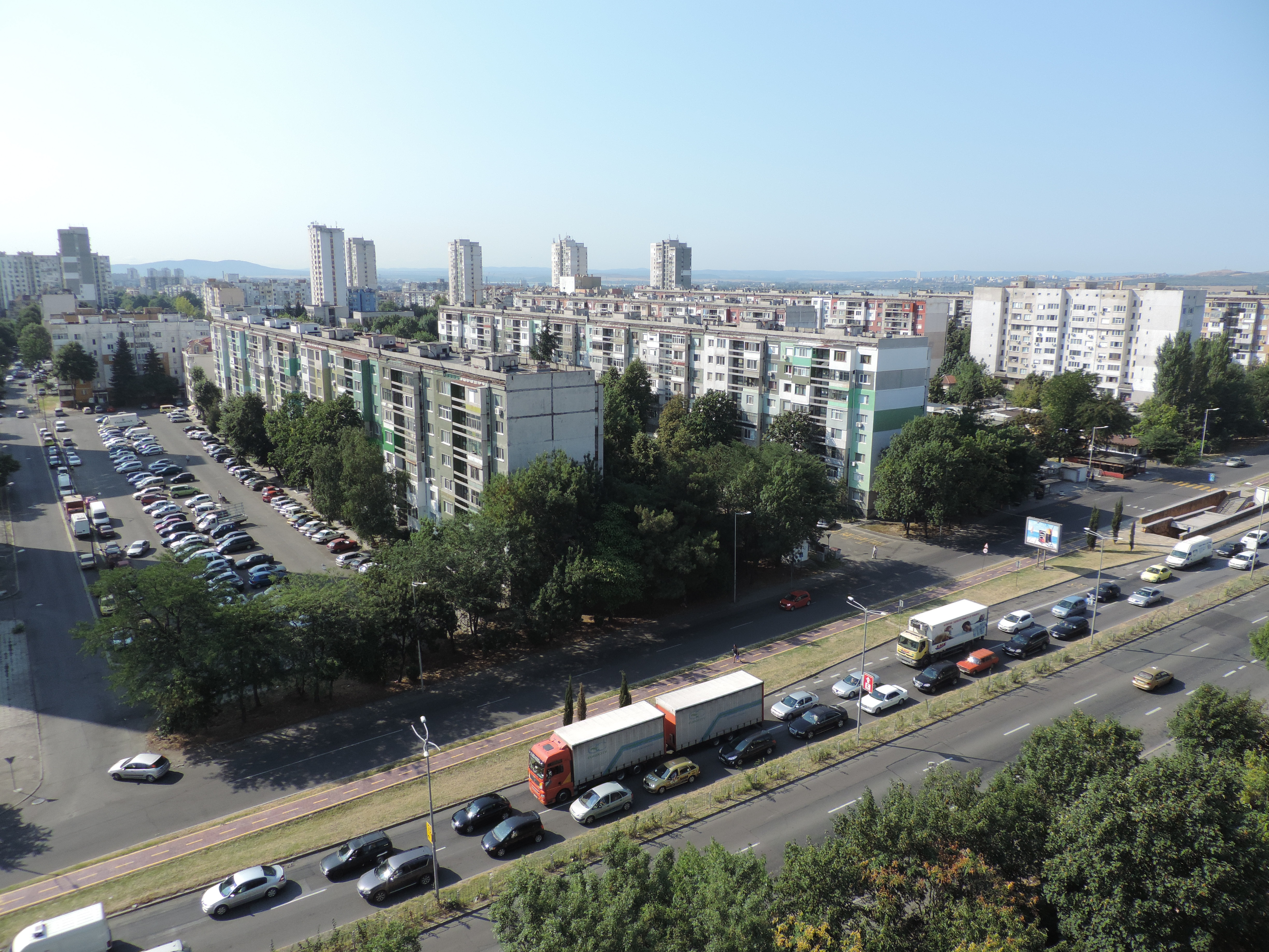 Petko Slaveykov Neighbourhood, Burgas, Bulgaria